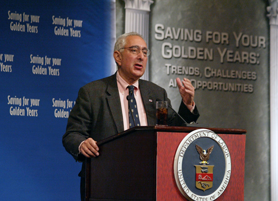 Ben Stein speaking at 2006 National Summit on Retirement Savings